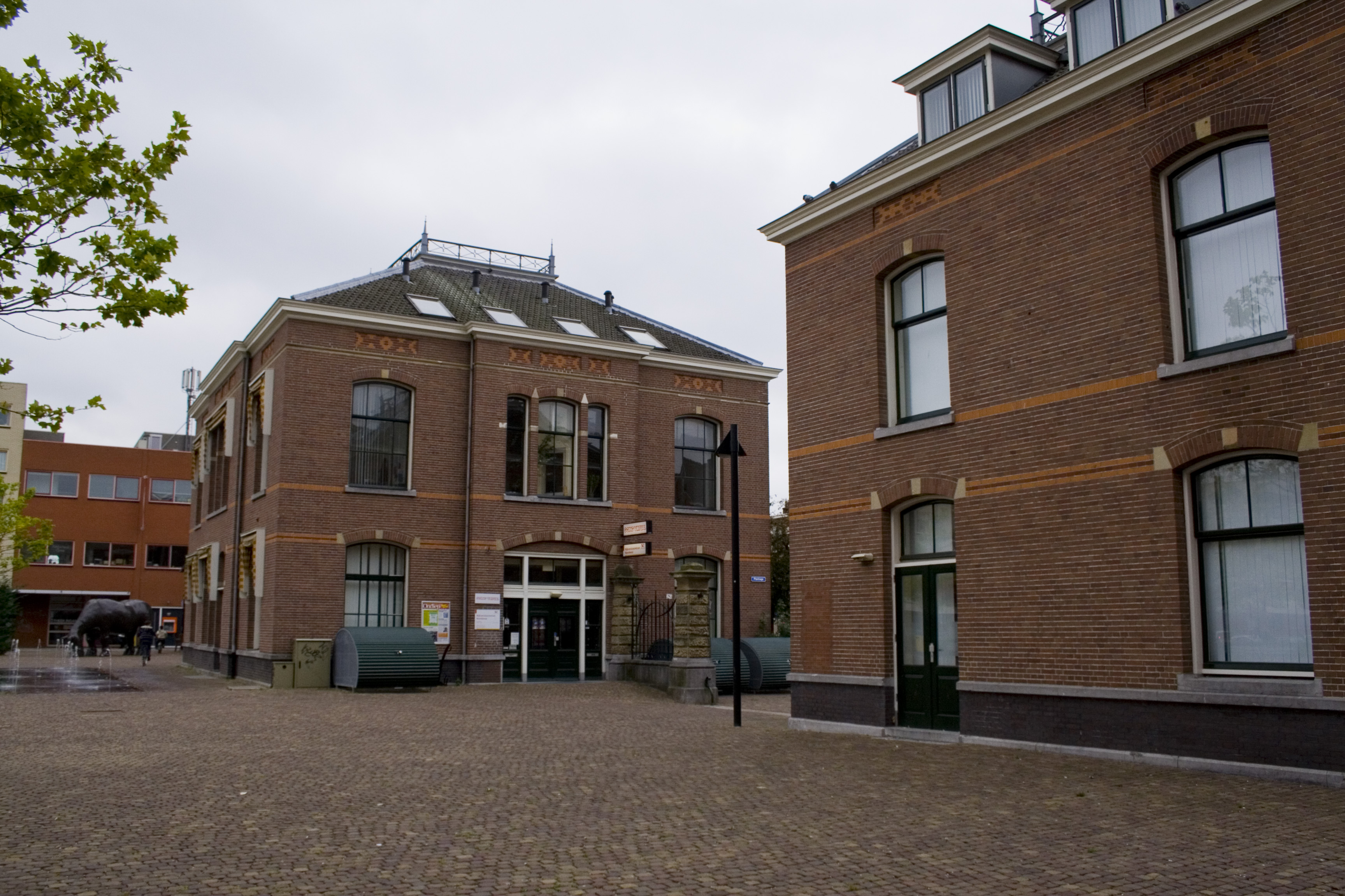 View on the old municipal butchery on the Amstersestraatweg taken from the Plantage square.